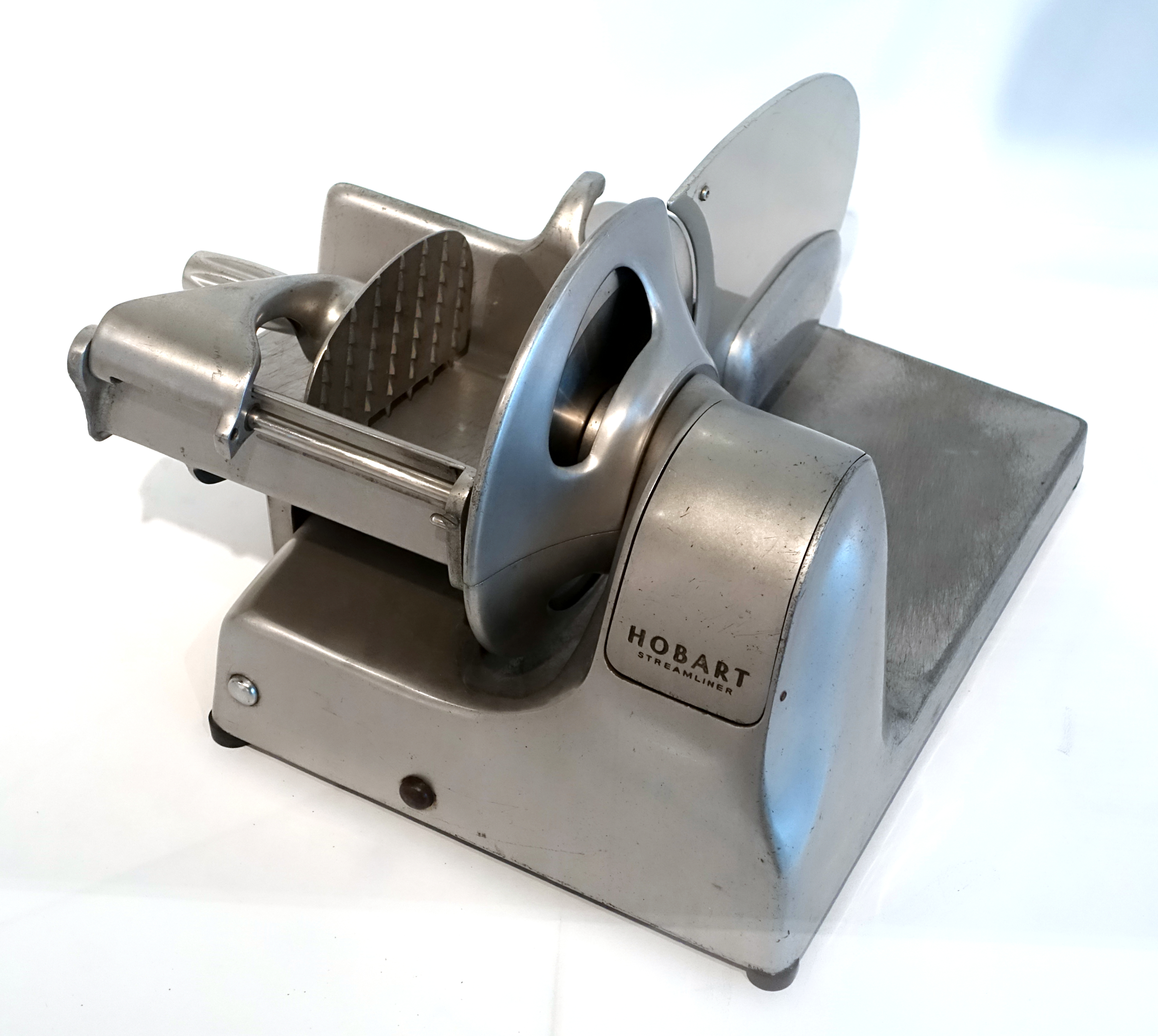 Exhibit in the Montreal Museum of Fine Arts - Montreal, Quebec, Canada. The design of this object is not eligible for trademark protection. Rather it might have been eligible for Industrial Design protection, but if so, that protection has expired; see Industrial design right for more information. Hence if the design was ever protected, its design protection has now expired.